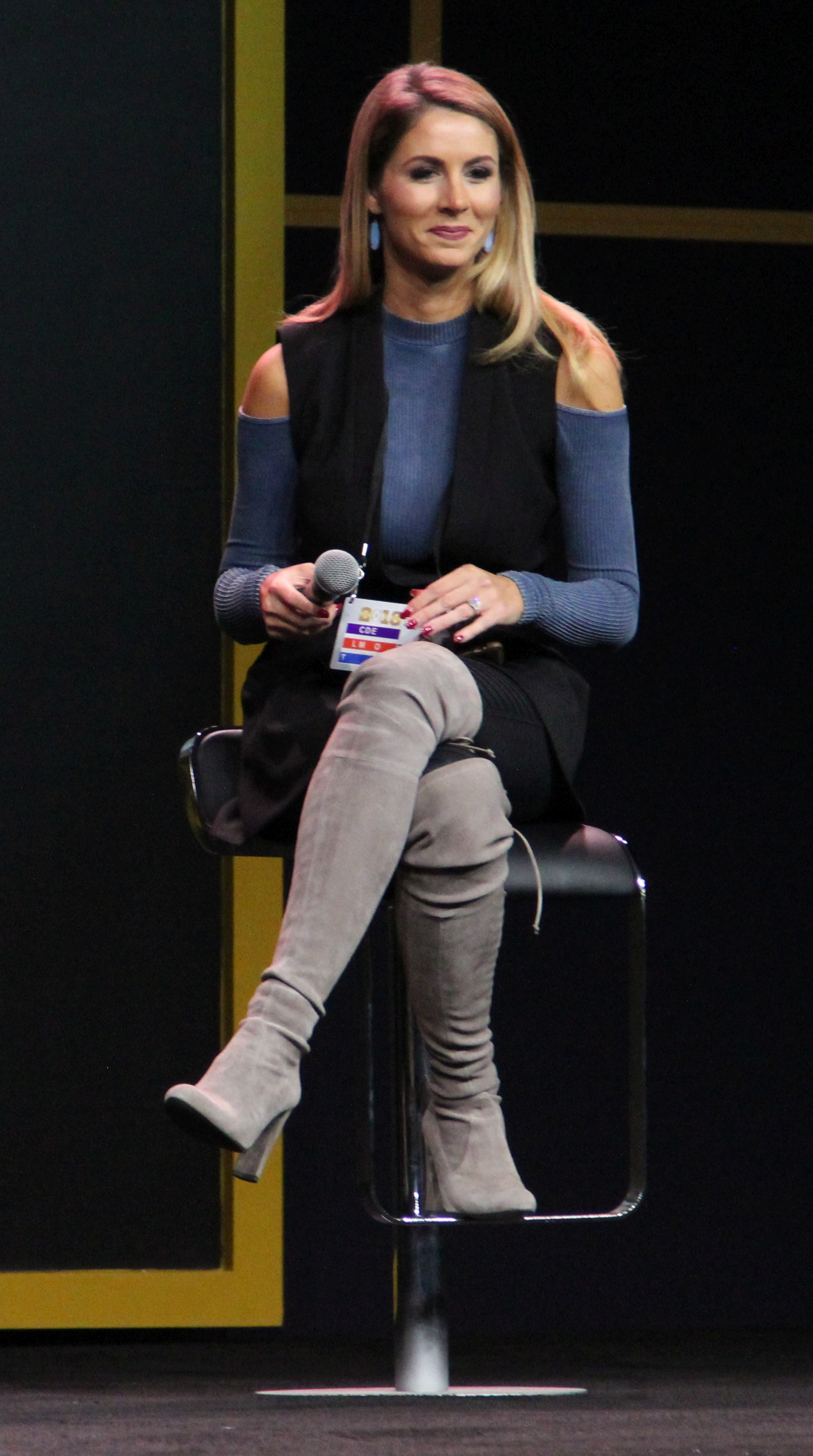 Laura Rutledge at the 2018 College Football Playoff National Championship Playoff Fan Central